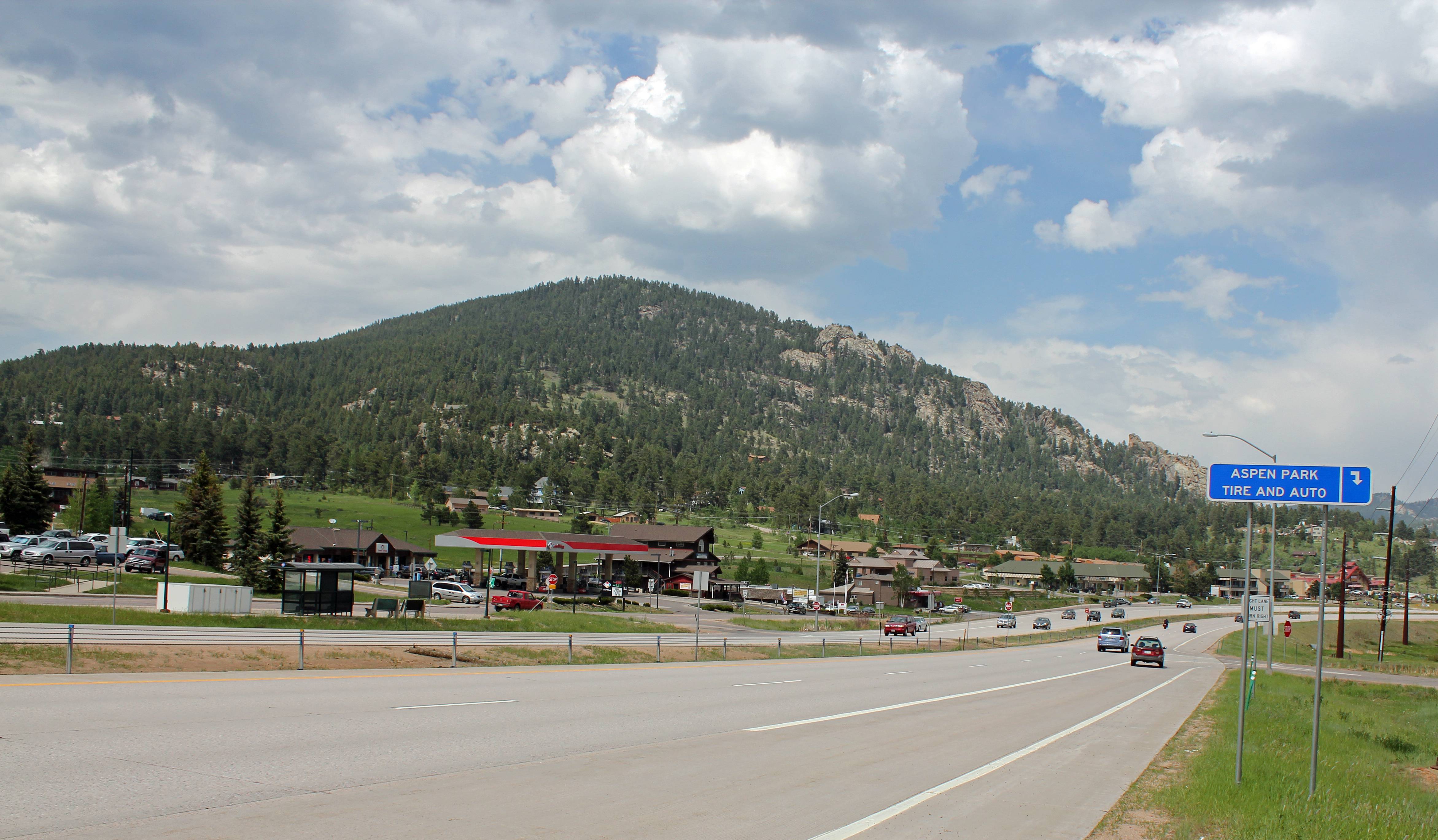 Highway 285 and Aspen Park, Colorado.